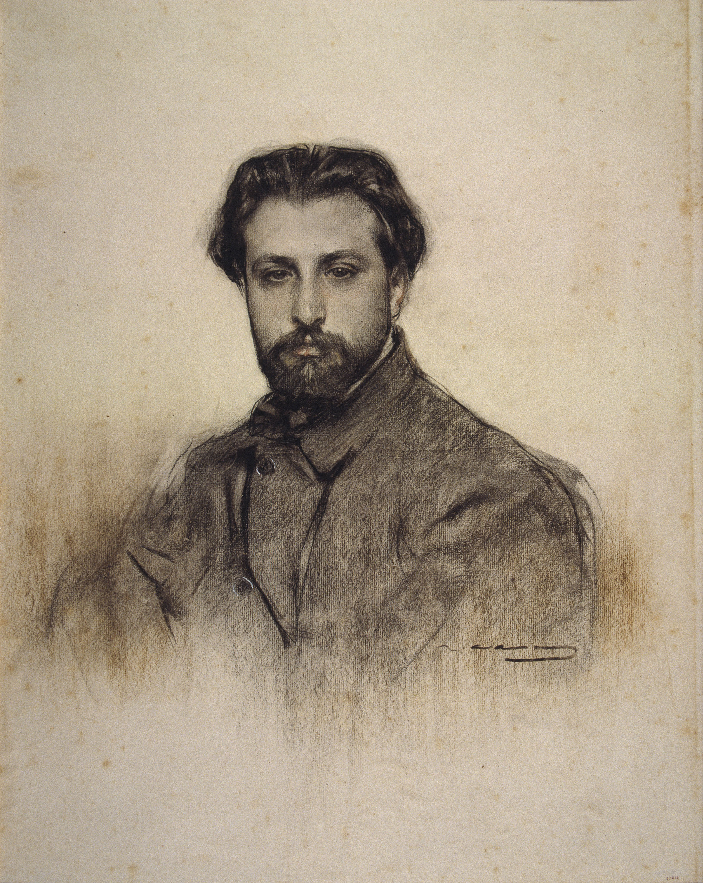 Portrait by Ramon Casas conserved at MNAC in Barcelona. Imagen 095